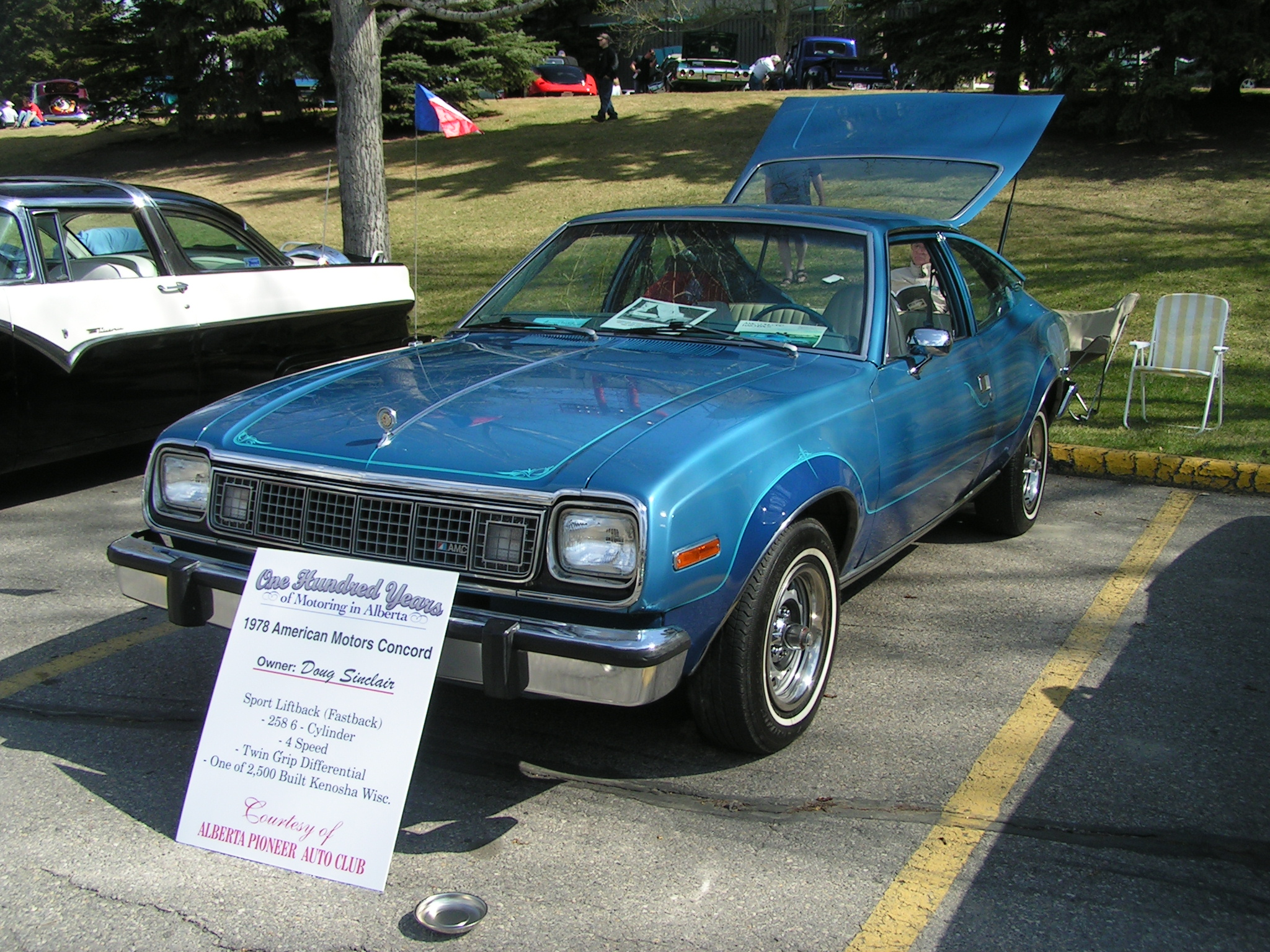 1978 AMC Concord Sports Liftback